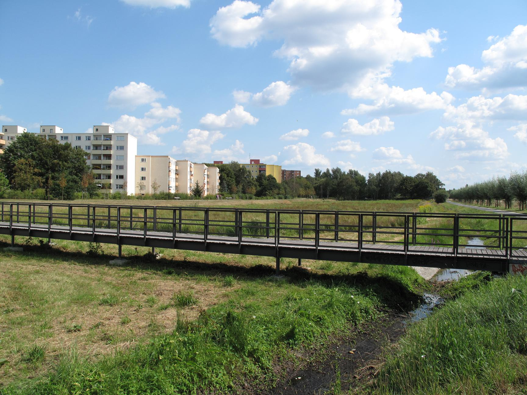 Meadow at Bullengarben. The Bullengraben (german for: bullditch) is a drainage channel to the river Havel in the localities Staaken, Wilhelmstadt and Spandau in the borough Berlin-Spandau, Germany. In 2007 there was opened the green space Bullengraben (german: „Grünzug Bullengraben“) along the 4,5 kilometre long ditch.